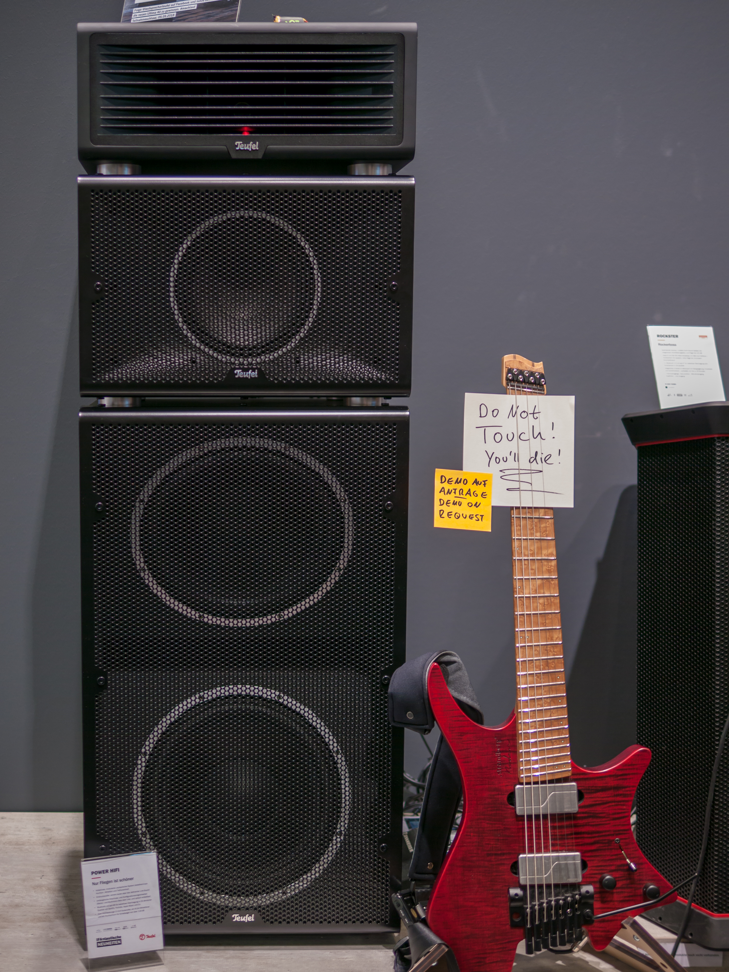 Teufel, Internationale Funkausstellung 2018, Berlin